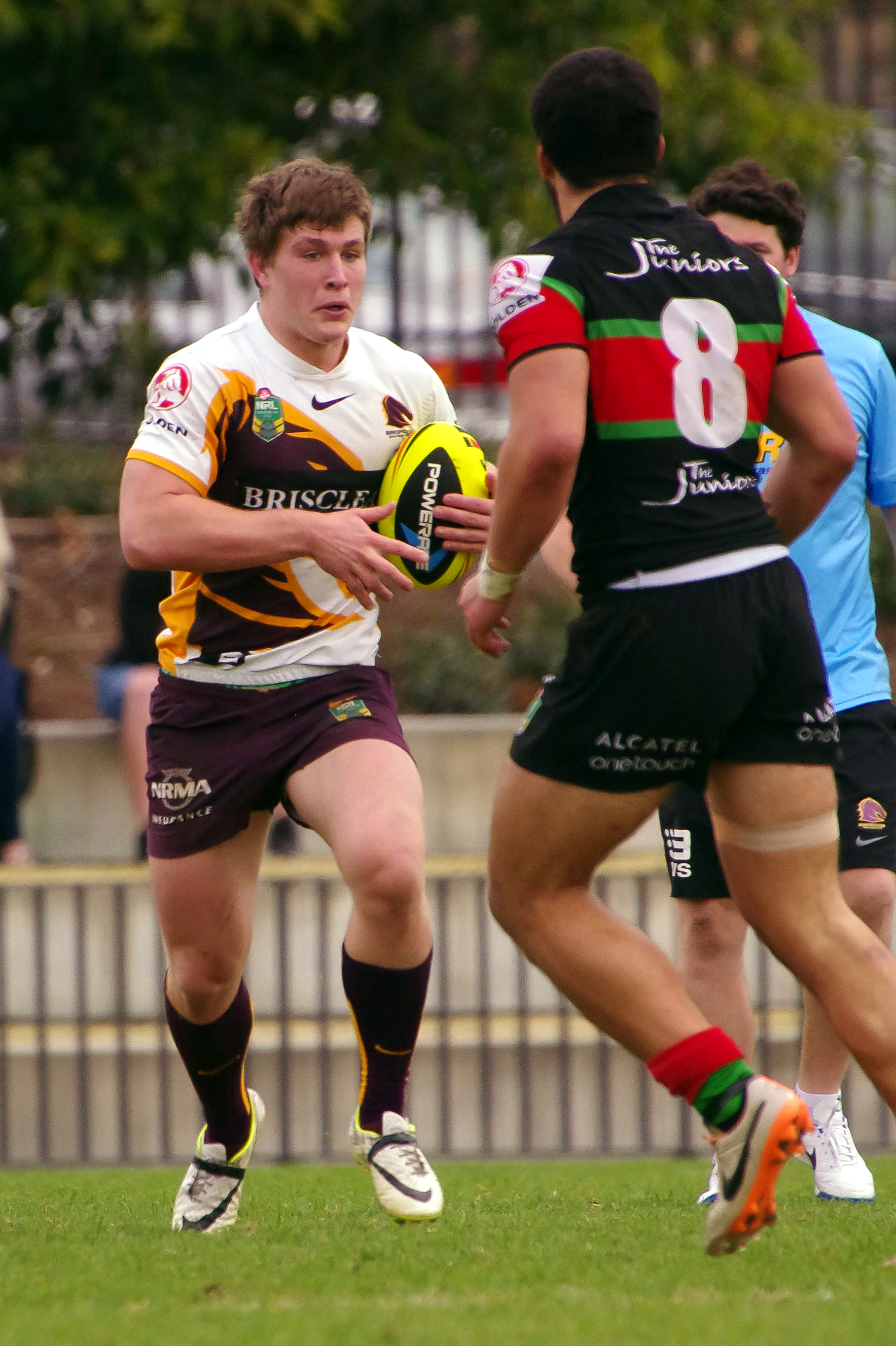 Jai Arrow